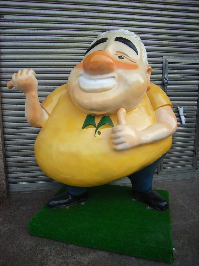 梁文韜 Mr LEUNG Man To's shop in Connaught Road West, Hong Kong, near the Island Pacific Hotel photo by ShingWong